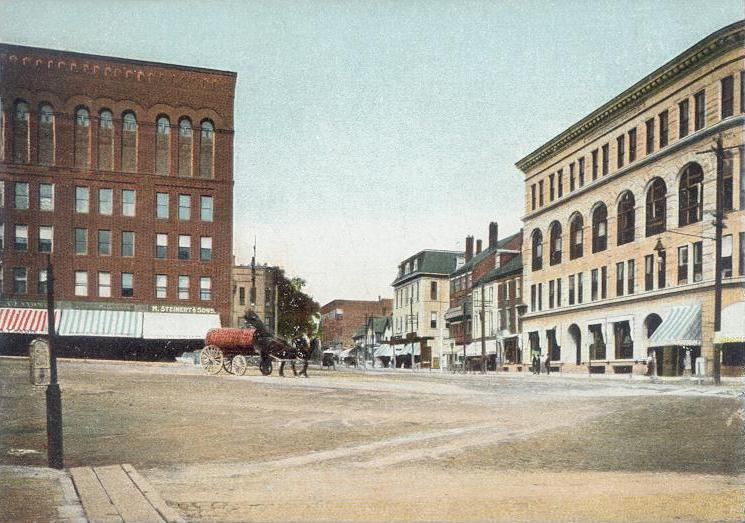 Central Square, Dover, NH; from a c. 1905 postcard.